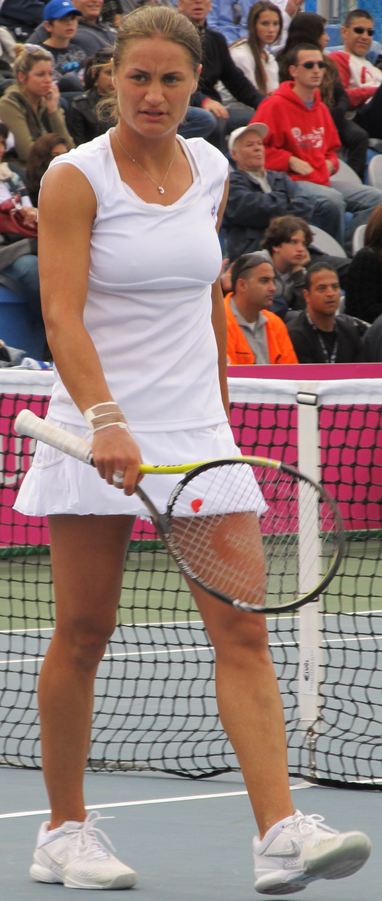 The tennis player Monica Niculescu of Romania during her match against Julia Glushko of Israel in the 4th day of Fed Cup Group I 2011 Europe/ Africa in Eilat, Israel